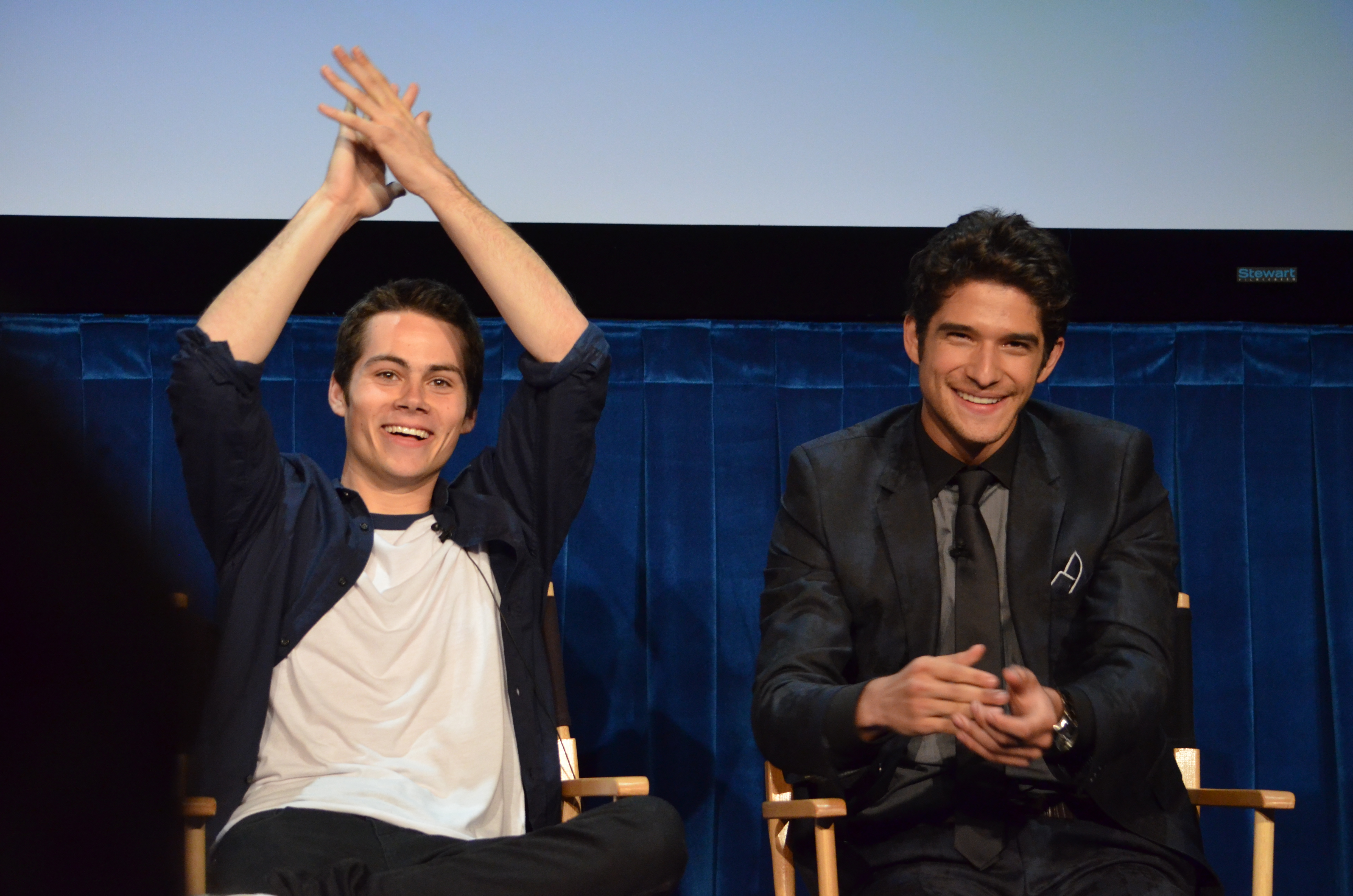 Dylan O'Brien & Tyler Posey On Stage @ Paley: Teen Wolf 2012.